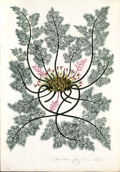 Botanical plate depicting Marathrum foeniculaceum Humb. & Bonpl.